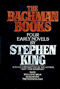 Cover to The Bachman Books by Stephen King